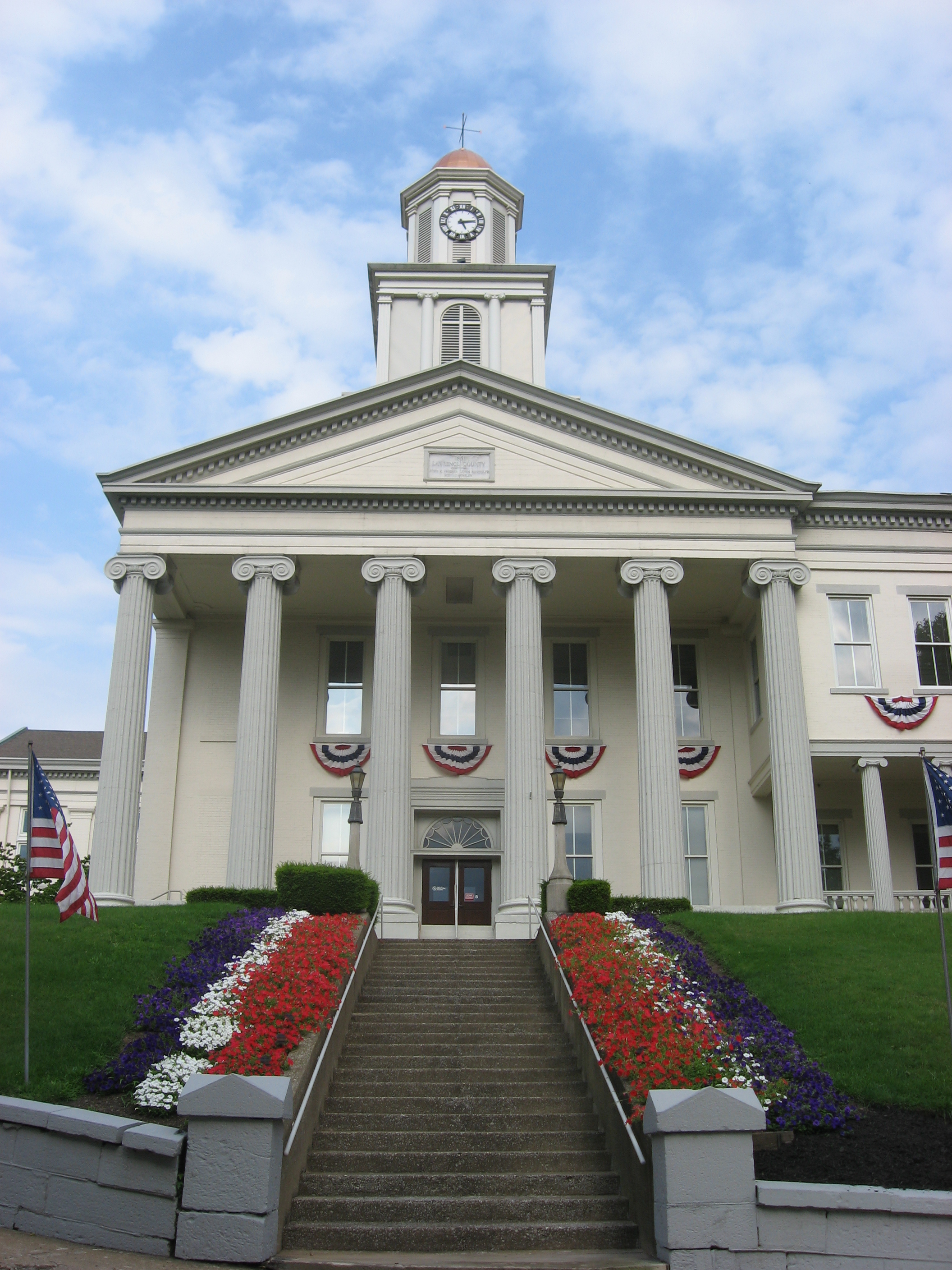 Front of the Lawrence County Courthouse, located at 430 Court Street in New Castle, Pennsylvania, United States. Built in 1850, it is listed on the National Register of Historic Places.